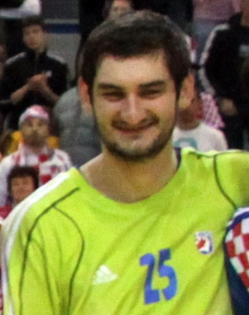 Croatian handball player Mirko Alilović